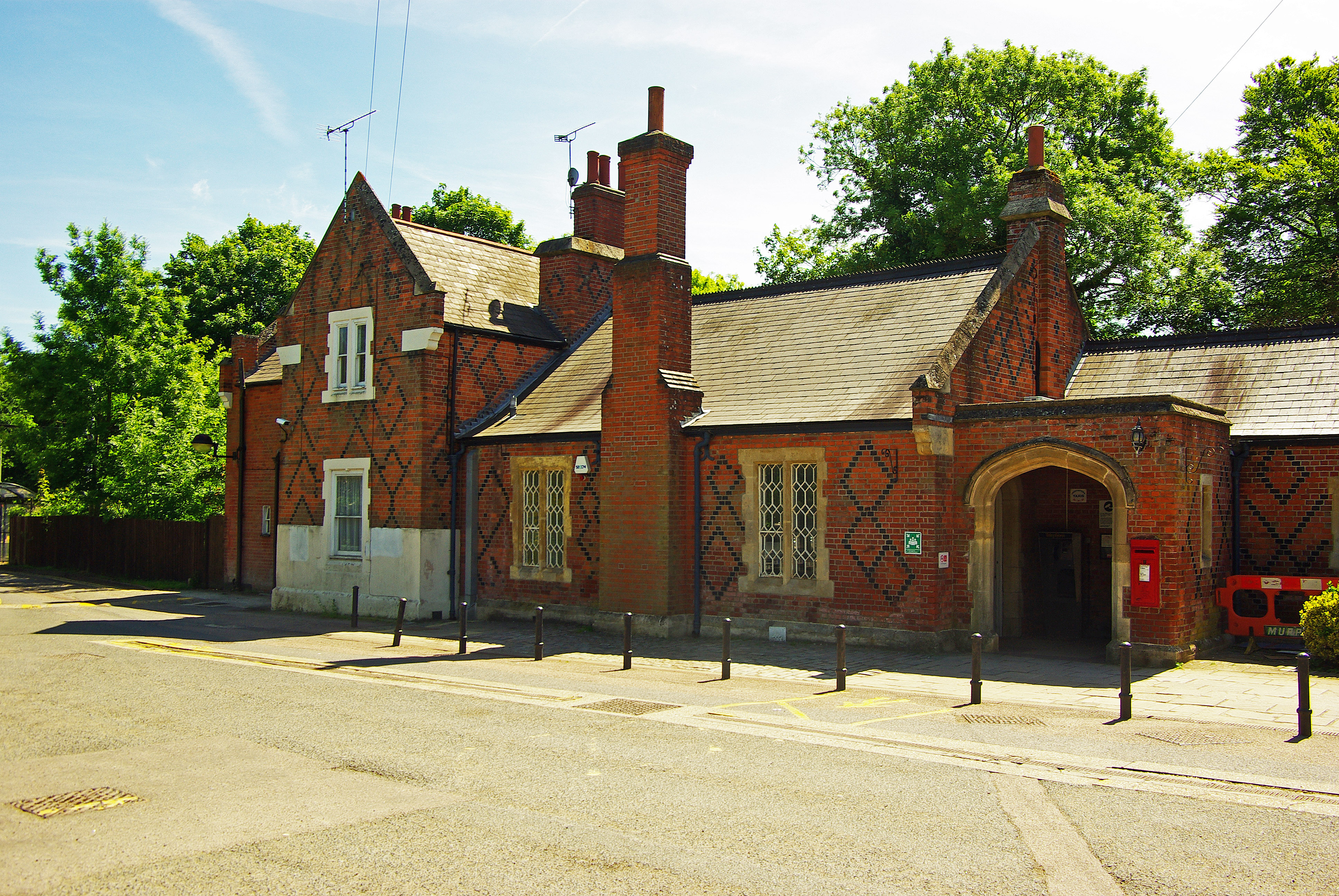 Ingatestone railway station (1846)